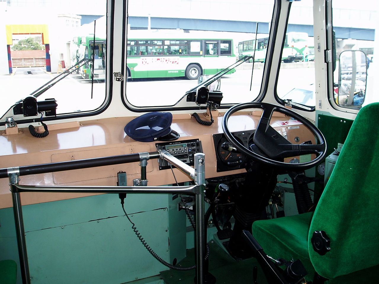 Driver's seat of Kobe City Bus "Kobekko II" Isuzu U-FTR32FB at Chuo Branch This picture is obtaining and photoing permission of the persons concerned.